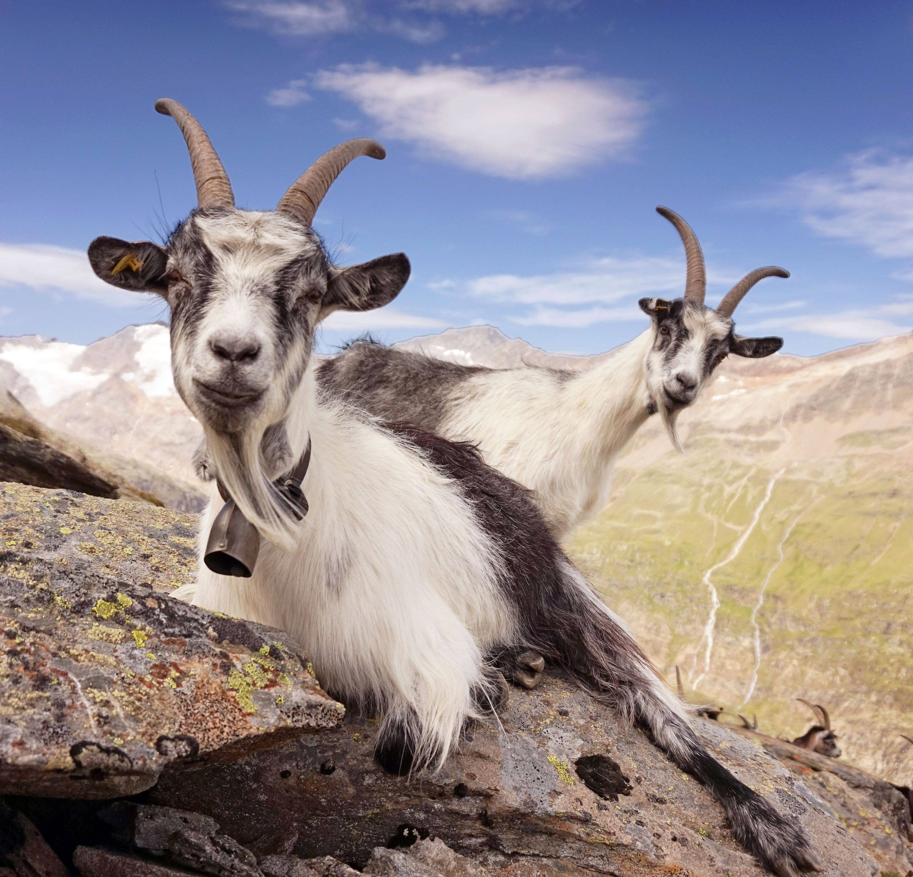 Goats on the mountain Hangerer in Obergurgl, Austria. This photograph was taken with a Sony Alpha a5000.